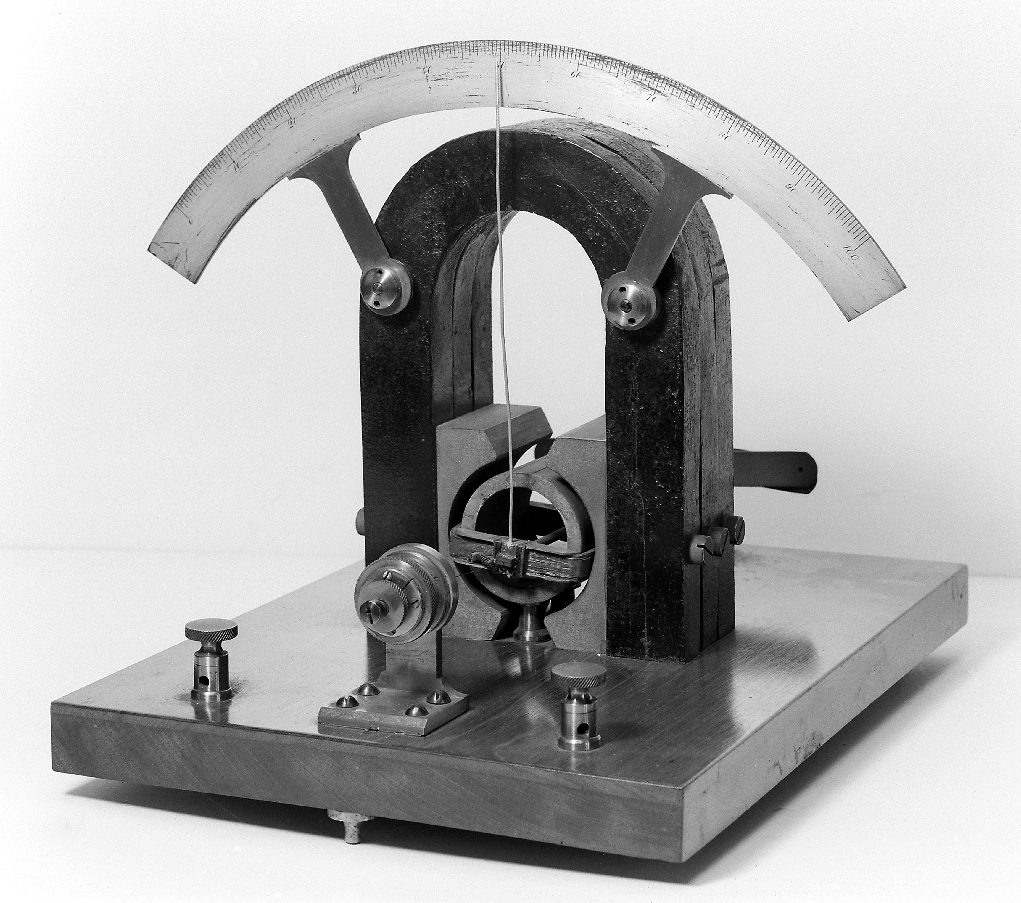 An early D'Arsonval galvanometer, which became the design used in modern moving coil ammeters. It consists of a small coil of fine wire suspended between the poles of a horseshoe magnet by a torsion fiber. When an electric current passes through the coil it turns to be parallel with the field, twisting the fiber, moving the pointer up the scale. When the torque of the coil balances the torque of the fiber, the pointer stops. From Hooke's law, the torque of the fiber is proportional to the angle of twist, so the angle of the pointer is proportional to the current. . Wellcome Images Keywords: Electricity; Electrotherapy